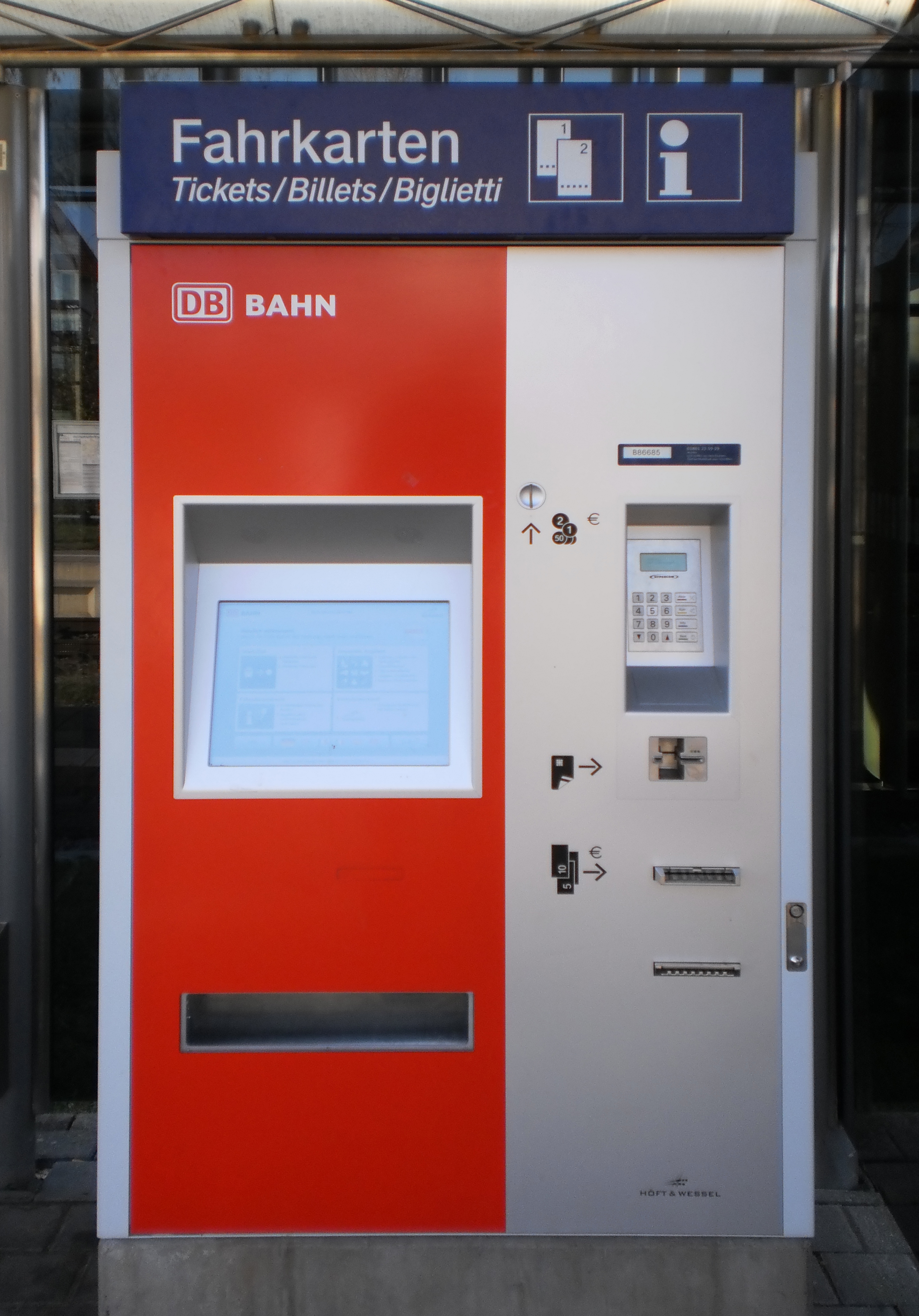 Deutsche Bahn - Ticket machine